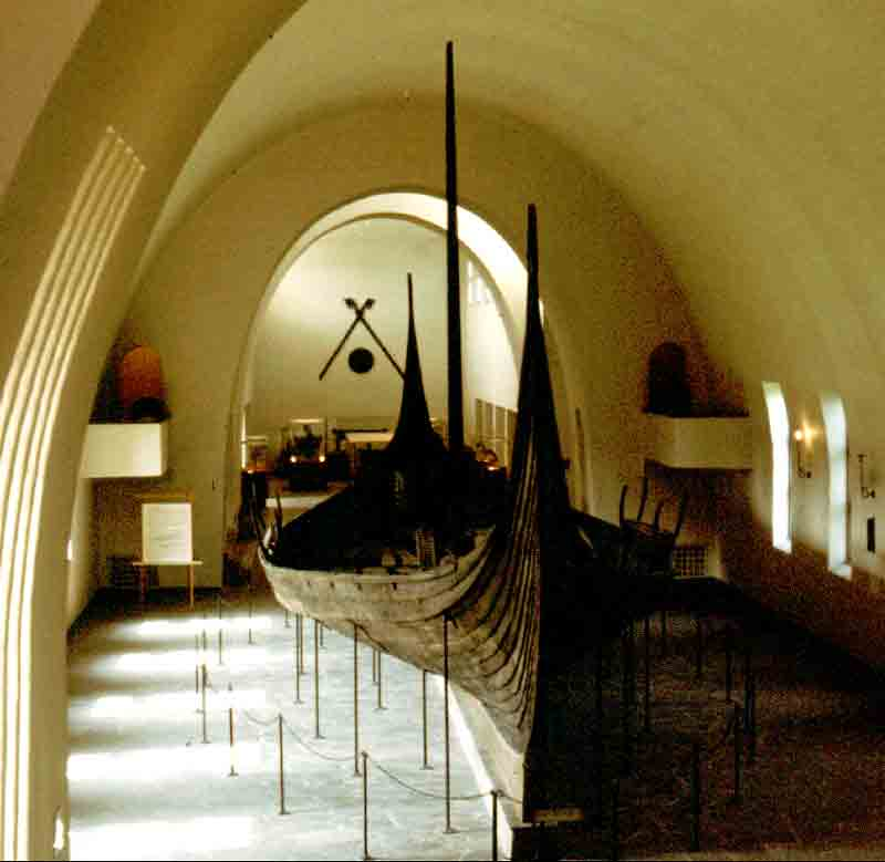 Viking longboat, Oslo